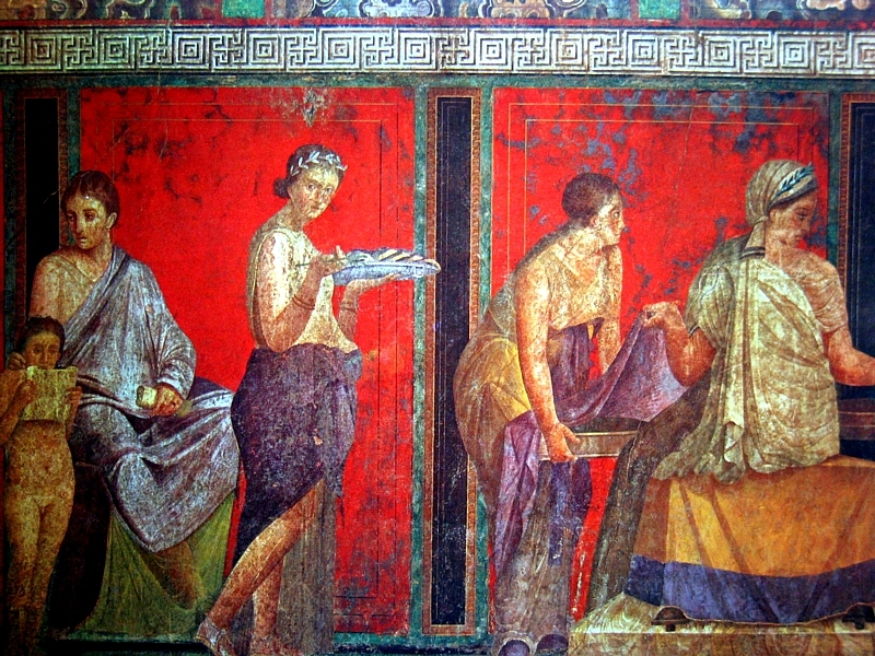 Roman Painting - Villa dei Misteri - Pompeii - Italia.